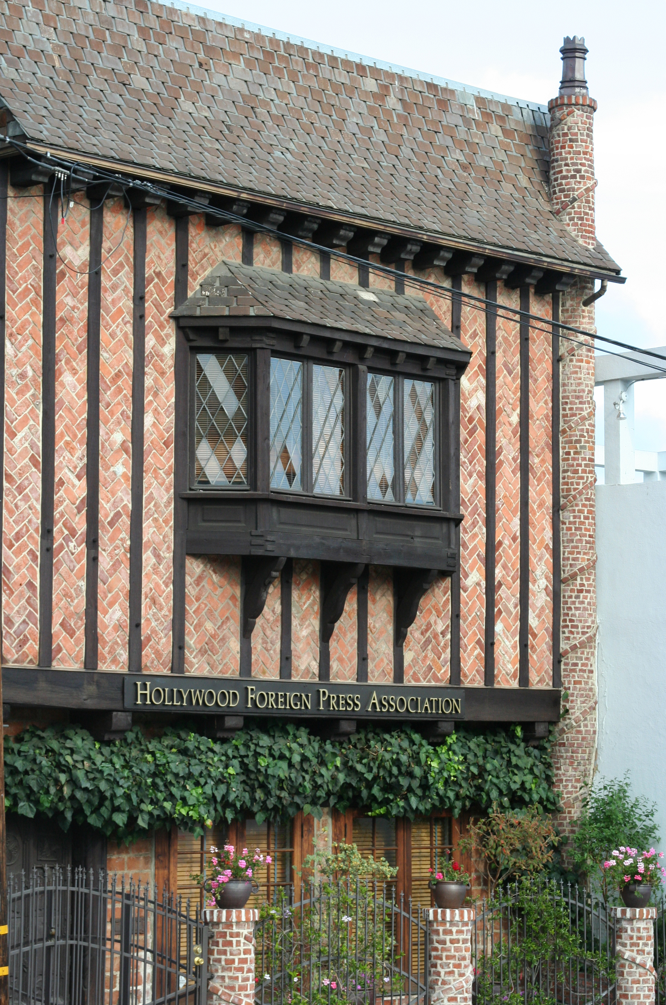 Hollywood Foreign Press Association, Los Angeles 2009, by ChildofMidnight.